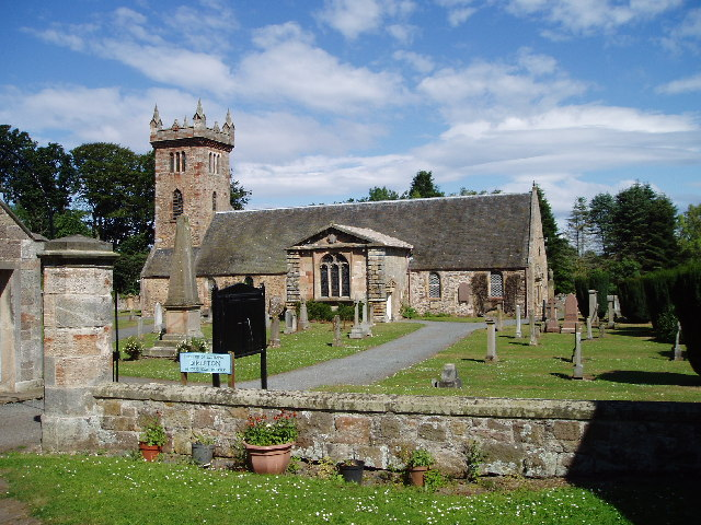 Dirleton Parish Church. This church located in the beautiful East Lothian village of Dirleton dates from 1661